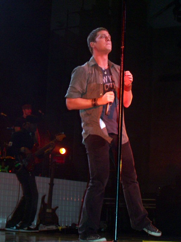 Rob Thomas Something To Be turnéja fresnói állomásán 2005. november 12-én / Rob Thomas in Fresno at 2005-11-12